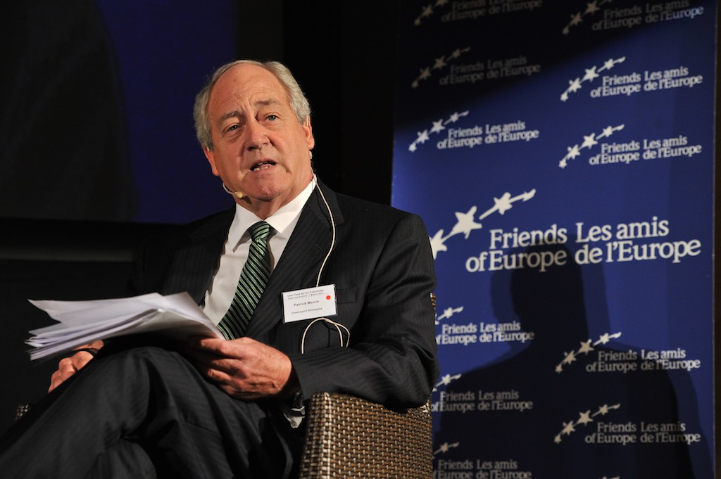 Friends of Europe - One year after Fukushima: The future of nuclear energy in Europe